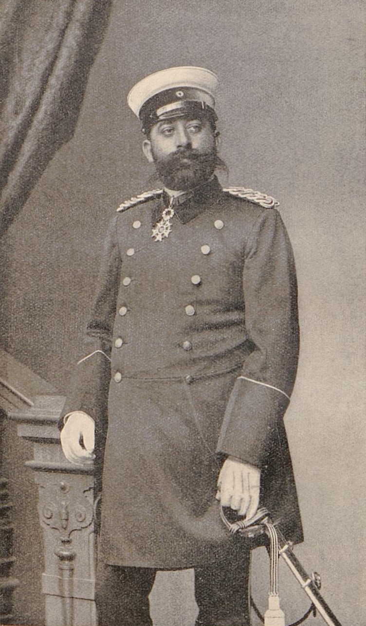 Alexander Becker (1857-1918)